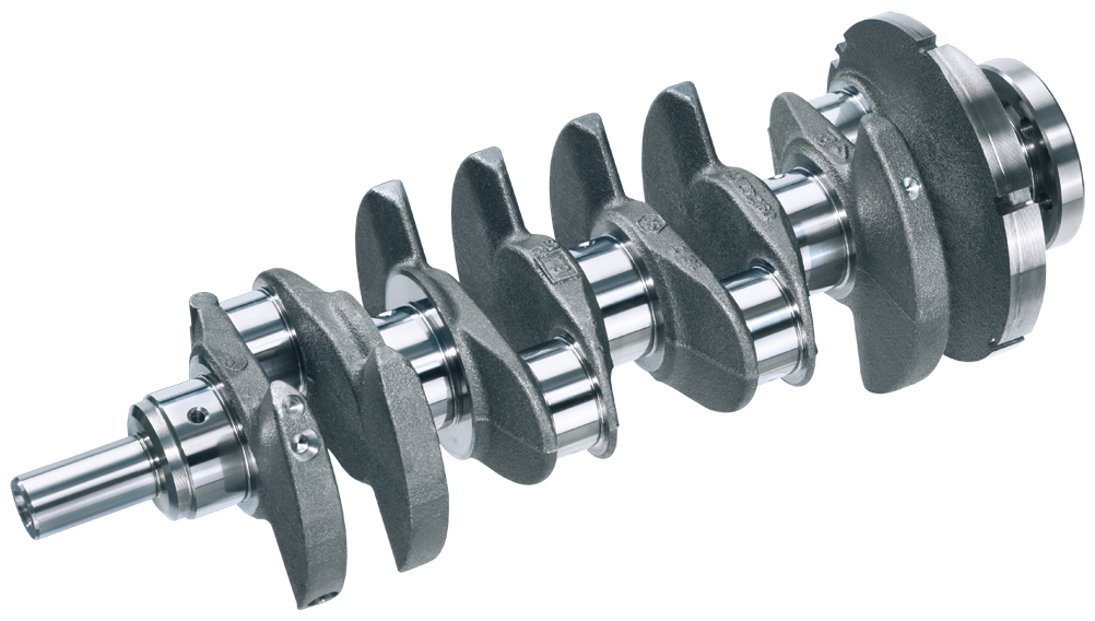 crankshaft, cast iron, sand casting